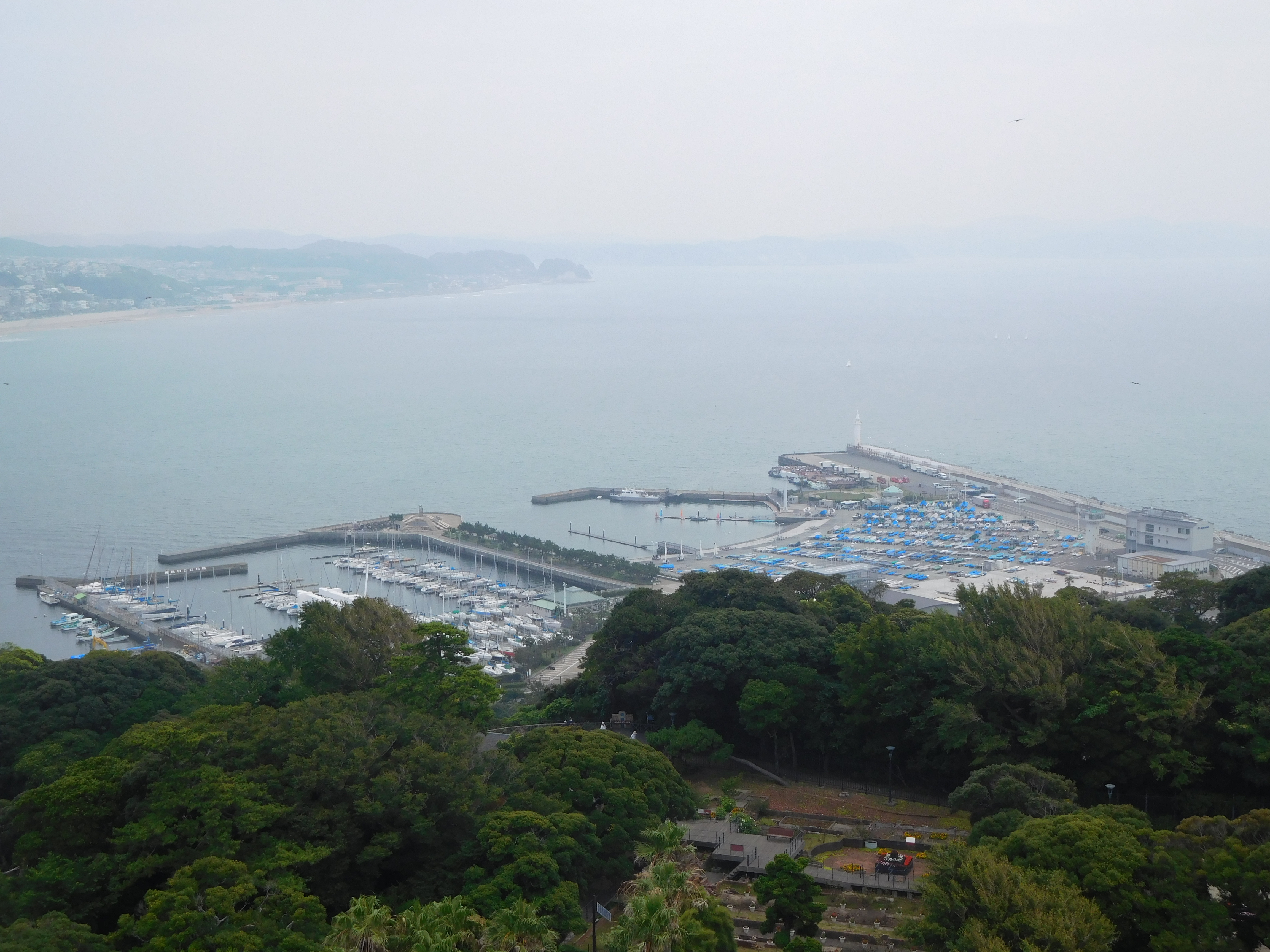 This is Shonan Port in Fujisawa, Kanagawa, Japan.